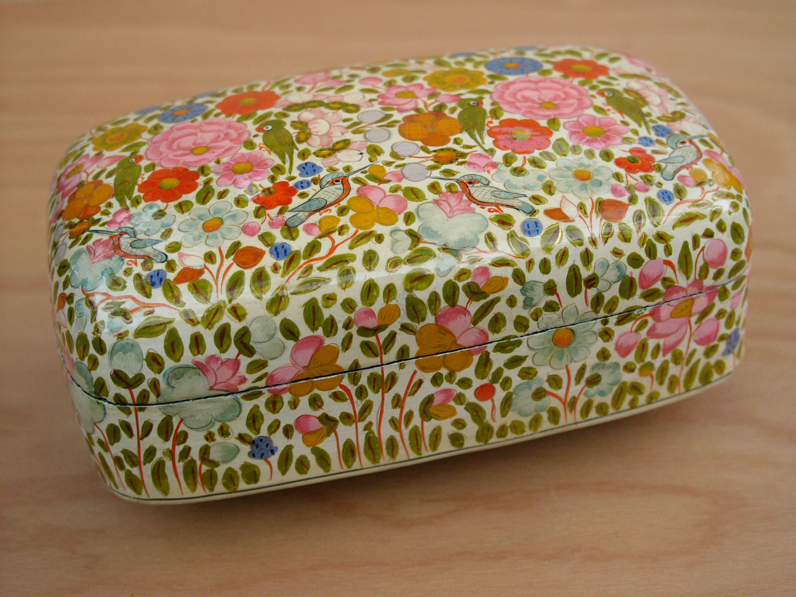 Chinese varnish casket